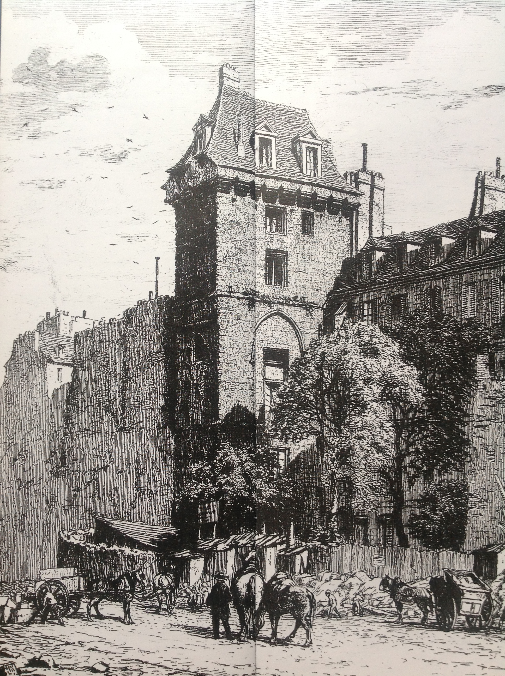 View of the Tour Jean Sans Peur in 1882, after construction of rue Etienne Marcel in 1867; drawing by Charles Yriarte in "History of Paris" (1882)